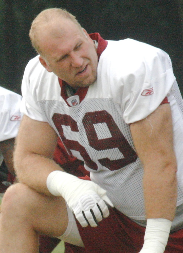 A picture of Washington Redskins OL Jason Fabini during training camp